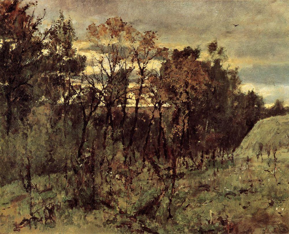 Serov. Autumn evening. Domotkanovo. 1886